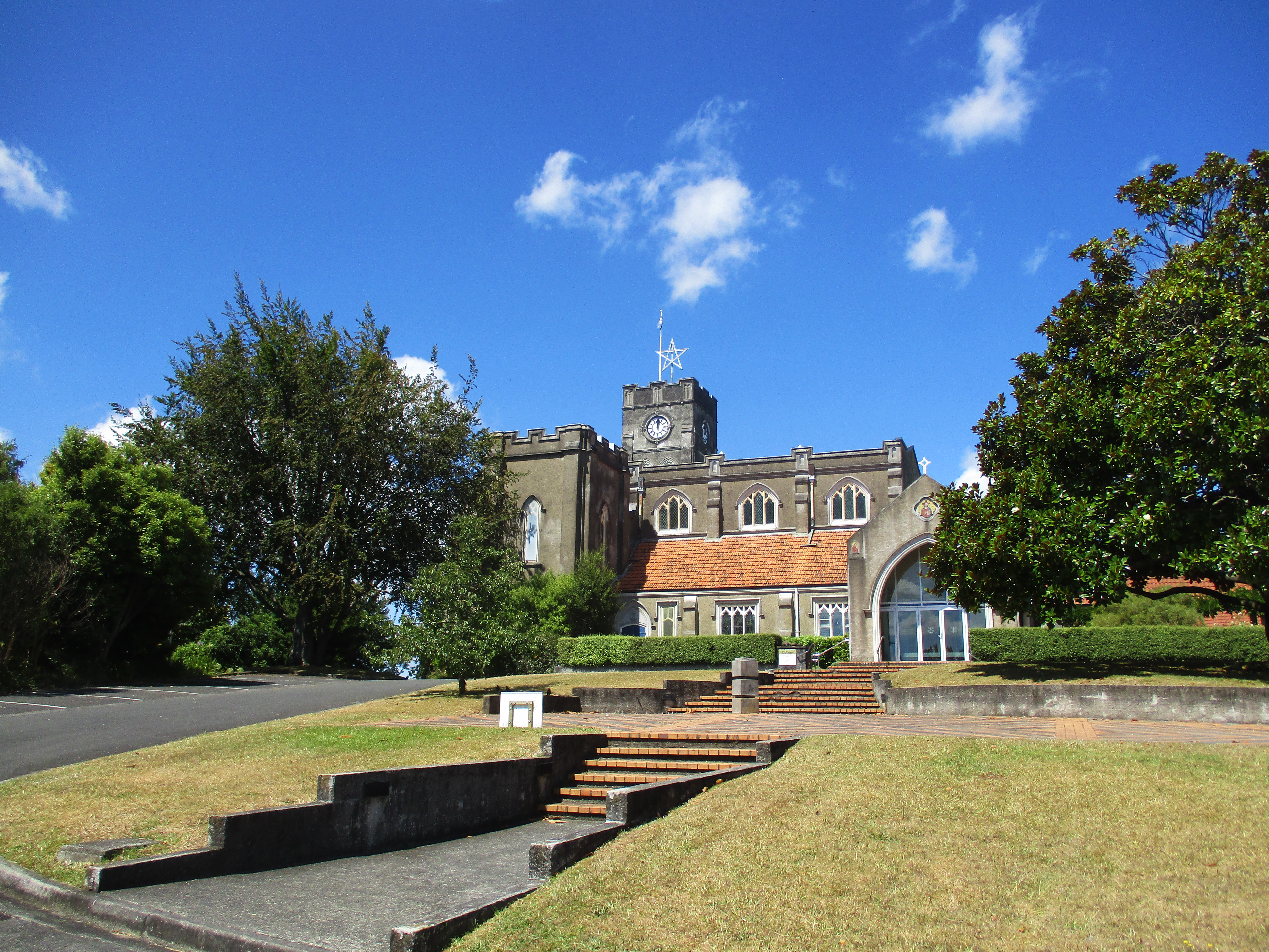 St Peters Hamilton